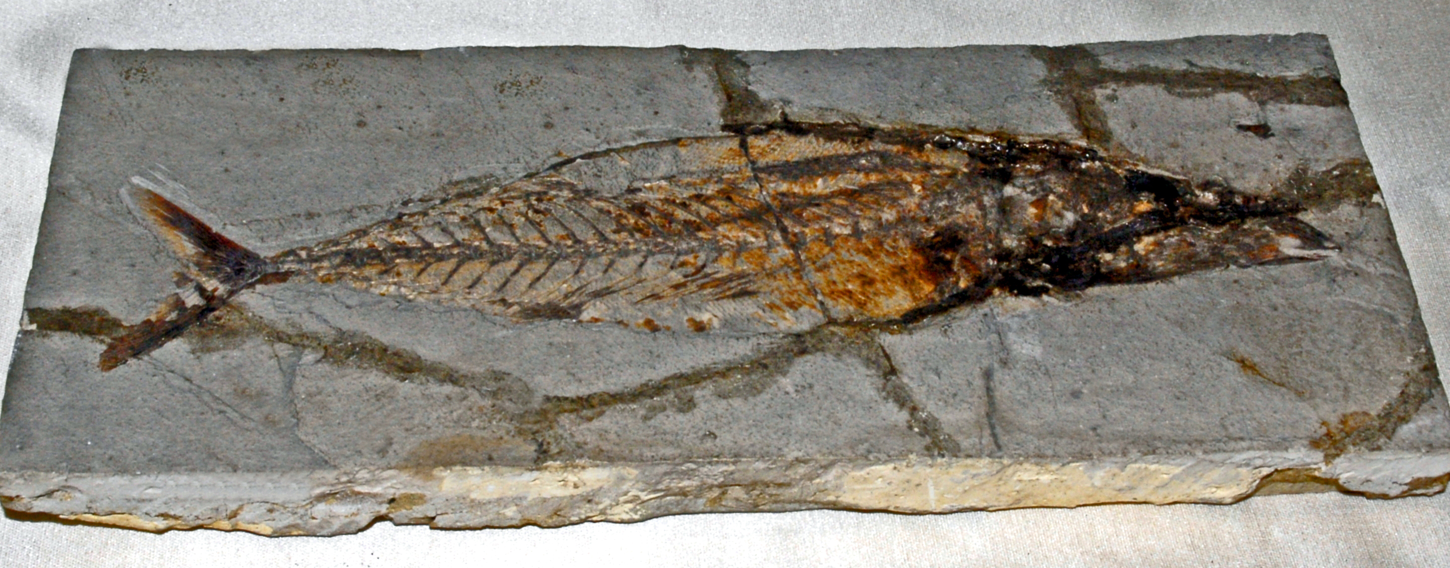 Fossil of Auxis propterigius from Monte Bolca, on display at Museo Geologico G. Cappellini, Bologna